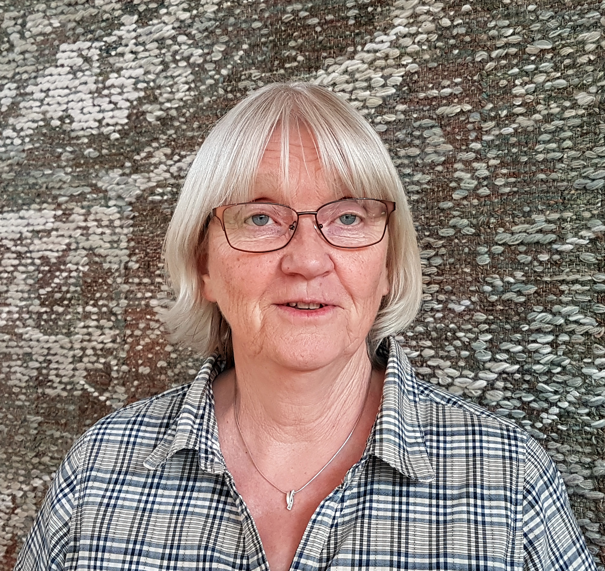 Gun Lidestav 2018